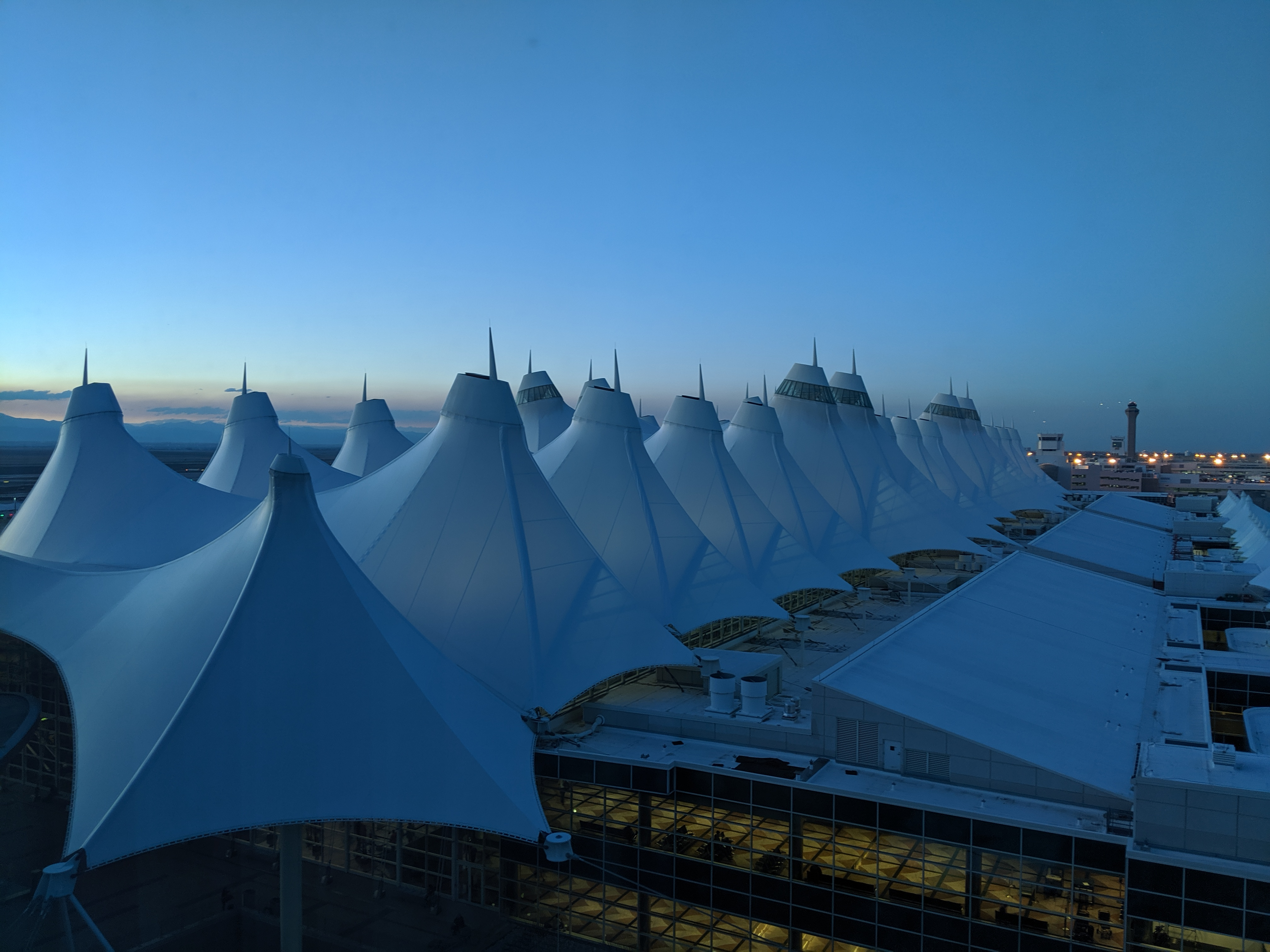 Denver International Airport Main Terminal at dusk from the Westin Hotel (13th floor)